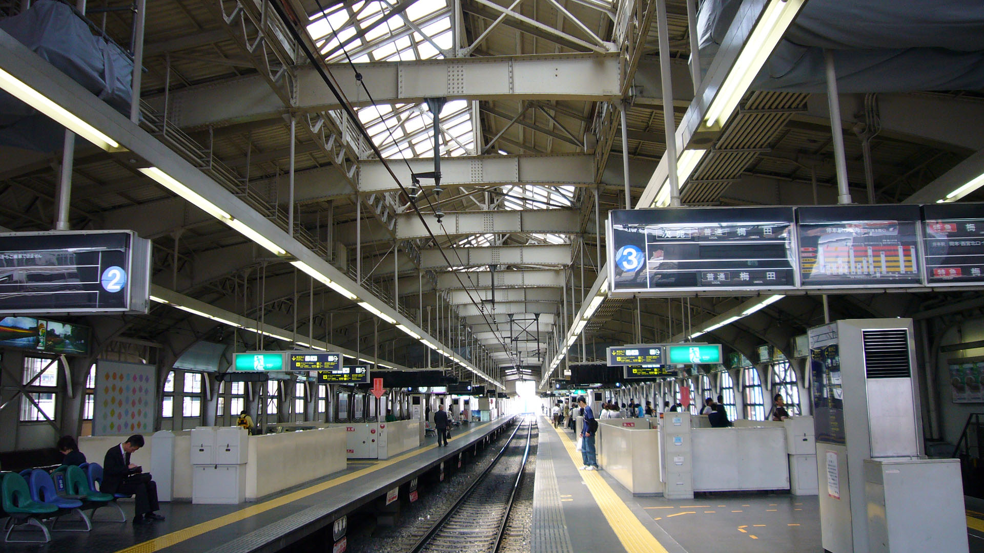 Hankyu Sannomiya station in Kobe, Japan